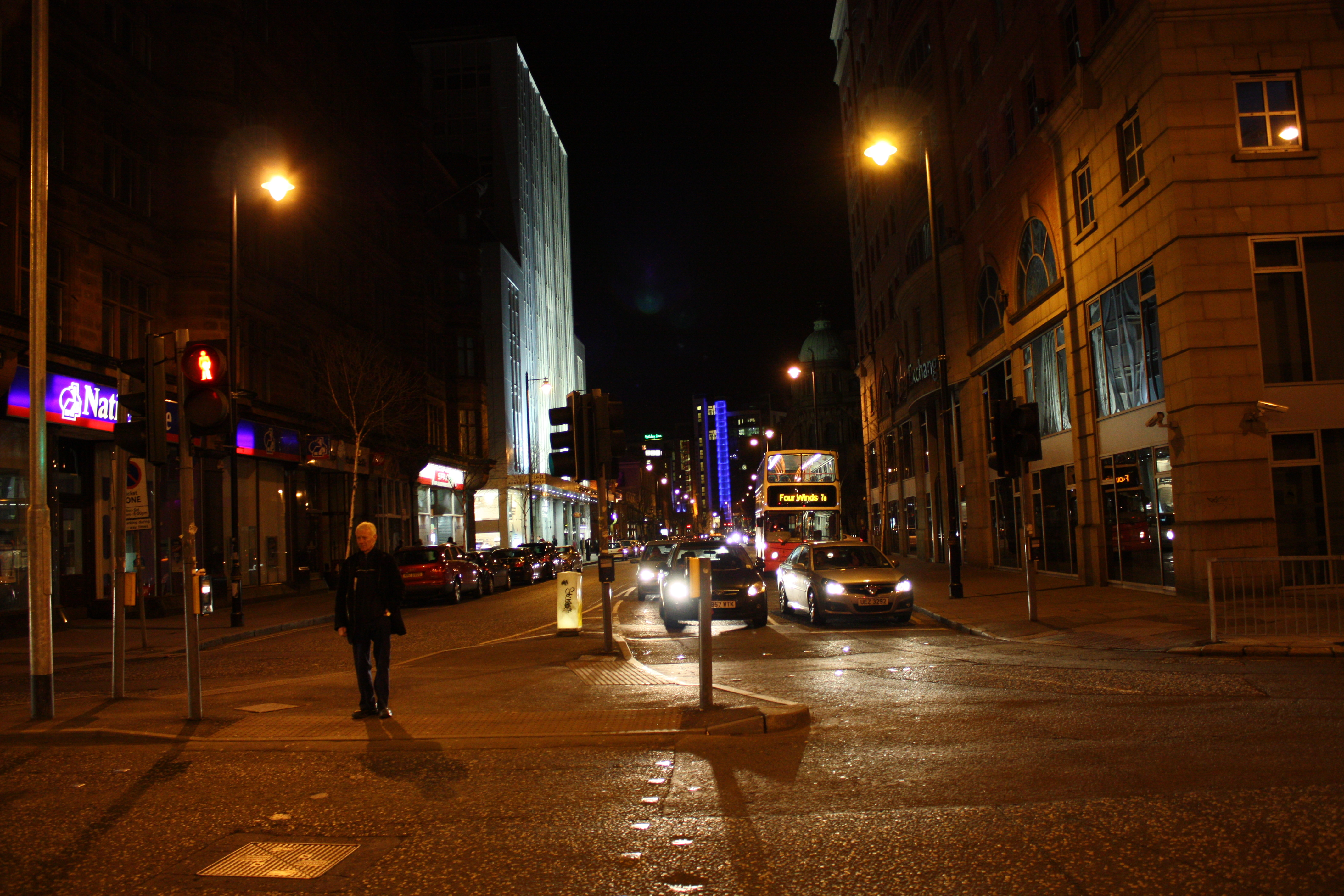 Dublin Road, Belfast, Northern Ireland, March 2010 (viewed from junction with Howard Street)